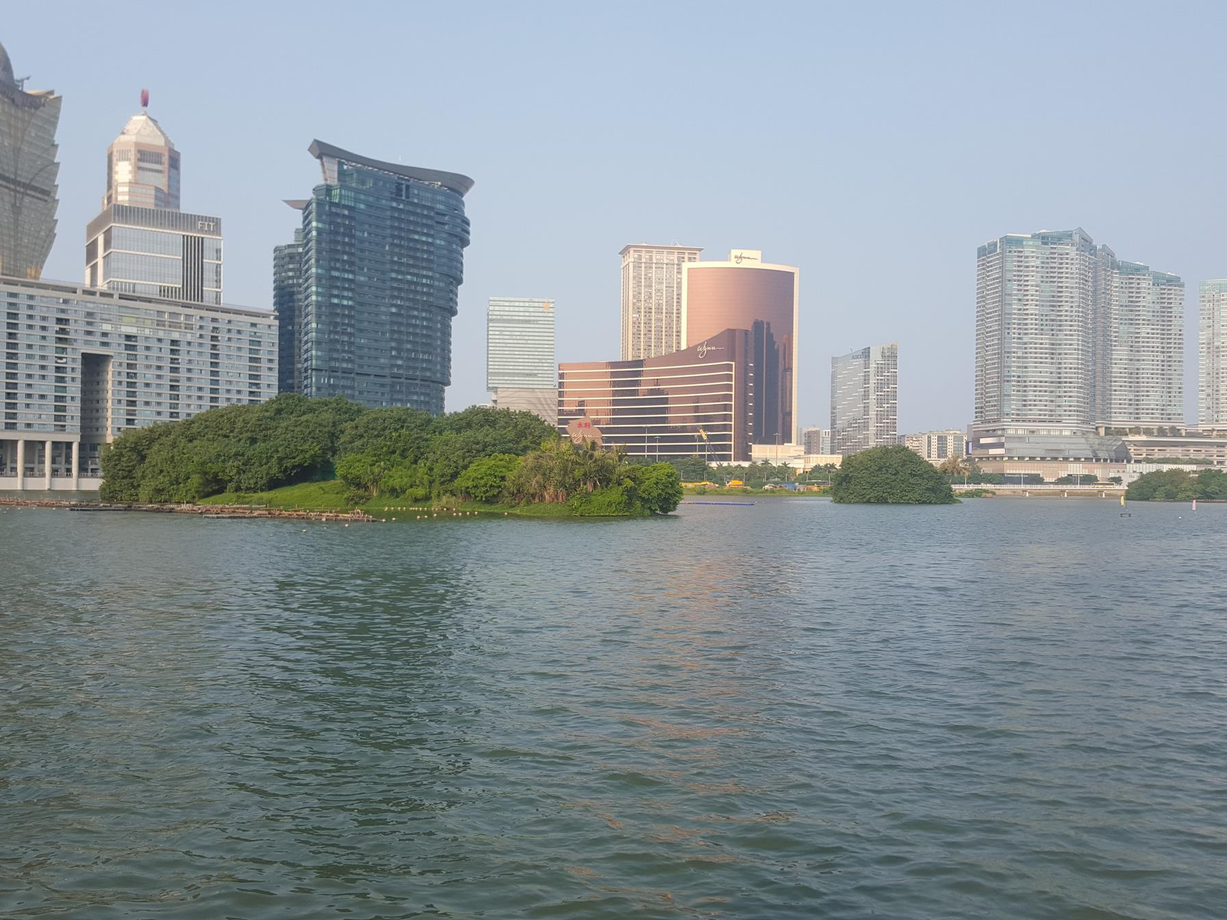 Nam Van Lake, Macau